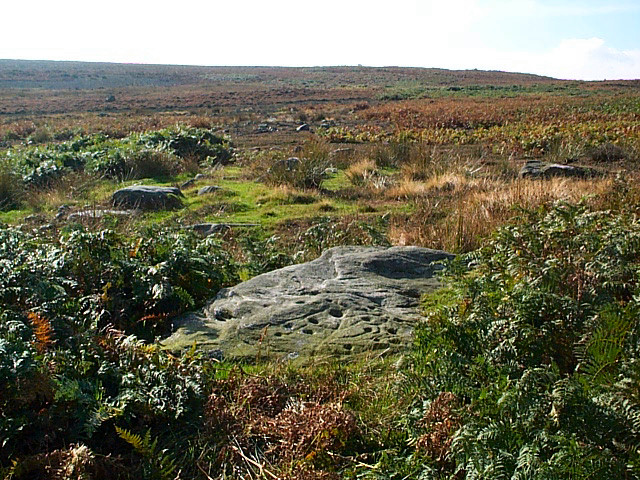 Tree of Life Stone, Snowden Carr. Prehistoric cup marked rock carving (possibly Bronze Age). Despite the stone's modern name, it is not known whether the carving was intended to depict a tree.